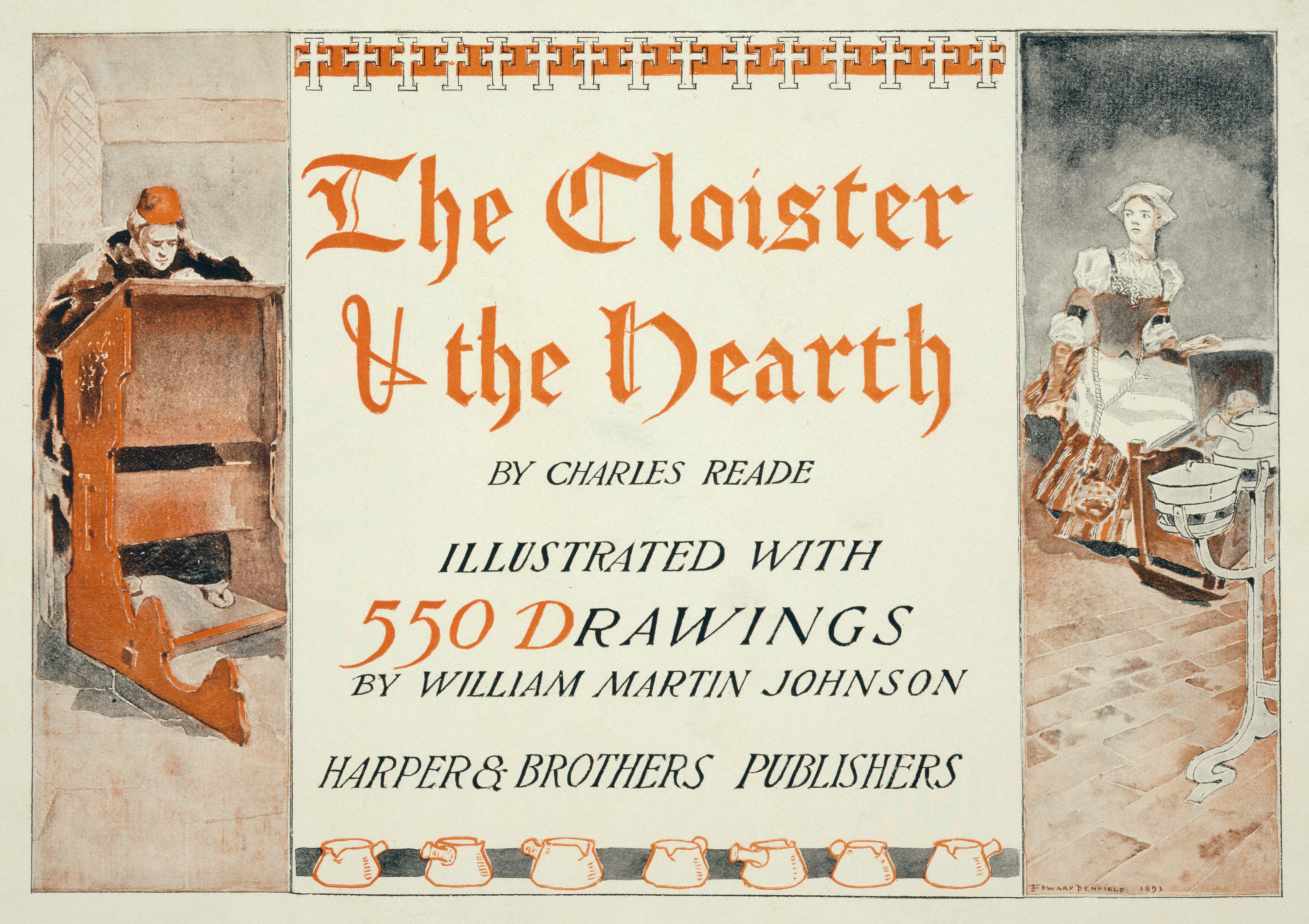 1893 poster advertising an edition of "The Cloister and the Hearth" (1861) by Charles Reade that was illustrated by William Martin Johnson. Poster by Harper & Brothers, New York, created by Edward Penfield.